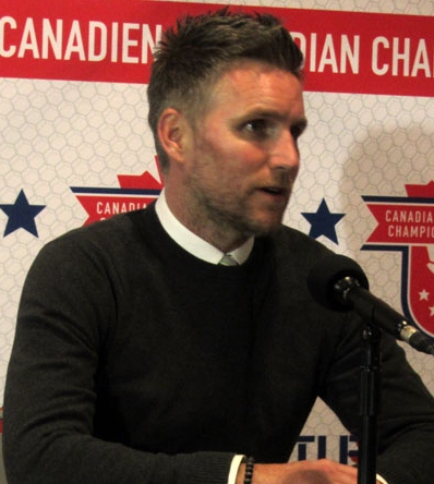 Jim Brennan as head coach of York 9 FC during a May 22, 2019 Canadian Chamionship post game press conference.